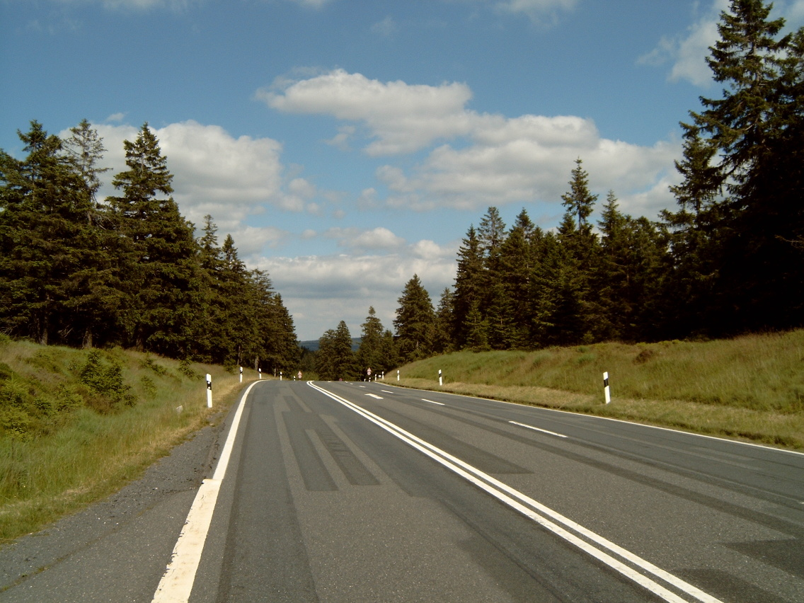 Federal road "B 242" at its highest point (828 metres) between "Dammhaus" and "Sonnenberg", view eastwards (direction "Sonnenberg")